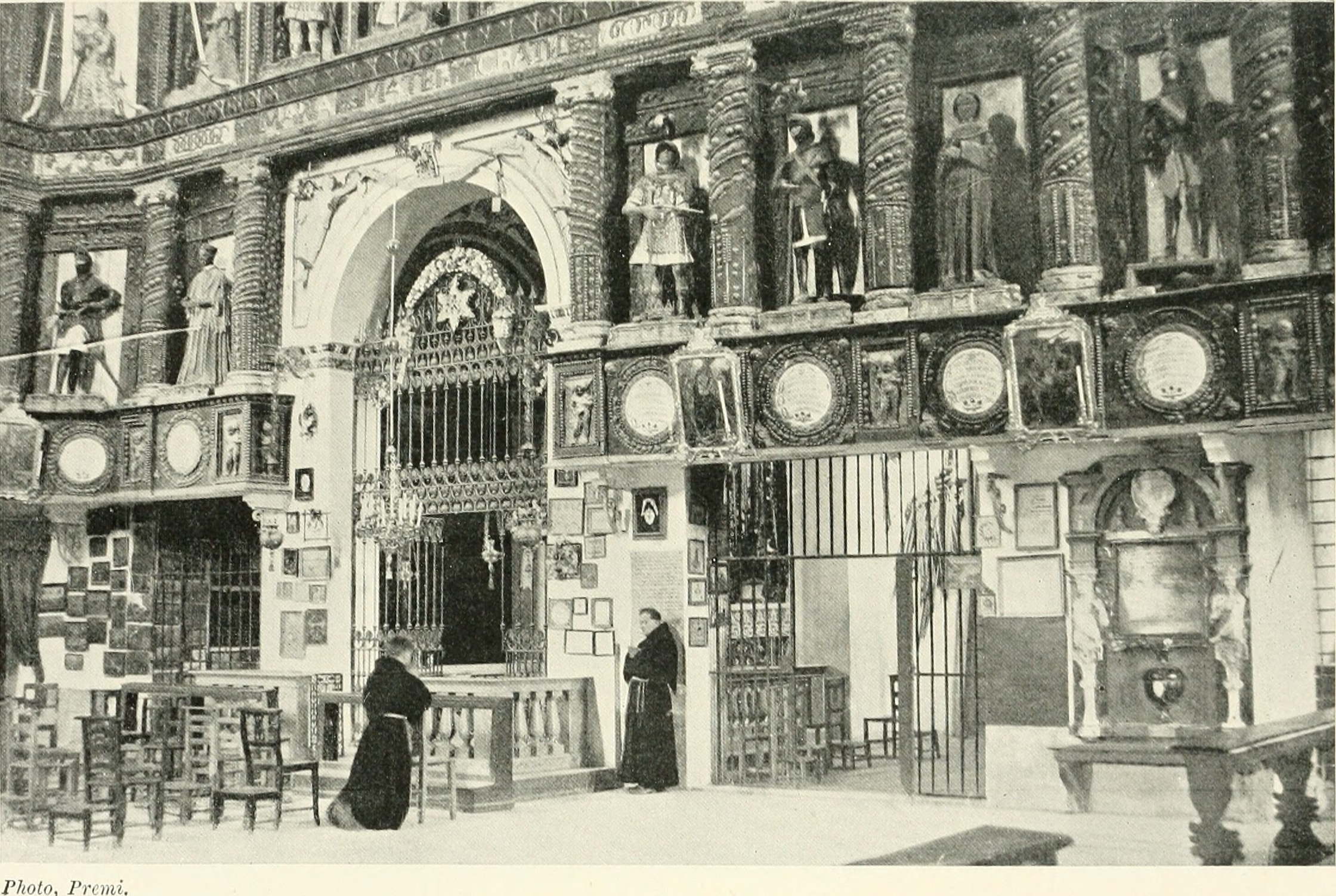 Title: Baldassare Castiglione the perfect courtier, his life and letters, 1478-1529; Year: 1908 (1900s) Authors: Ady, Julia Mary Cartwright, d. 1924 Subjects: Castiglione, Baldassarre, conte, 1478-1529 Italy -- History 1492-1559 Publisher: London : John Murray Text Appearing Before Image: statueof the risen Christ, was erected over the tomb. Thefigure, with its uplifted arm and flying draperies,recalls the Christ of the Transfiguration which MesserGiulio had painted from his masters designs inIlaphaels last altar-piece ; and the roof of the chapelis decorated with medallions of the Passion andResurrection framed in delicate arabesques, similar tothose which had excited Castigliones admiration inthe Vatican Loggie. At the request of LodovicoStrozzi, whom he met at the Emperors coronation,at Bologna in 1530, Bembo composed a Latin epitaphto be inscribed on the marble. Four days ago, he wrote from Venice to his oldfriends nephew, I received a letter from M. LazzaroBonamico, saying that you had asked him to remindme of the promise which I made to you in Bolognaregarding your uncle Count Baldassares epitaph.And since you also begged that this should be donepromptly, I send you these lines which I have com-posed without troubling M. I^azzaro. If I had more ^ Donesmondi, 150. Text Appearing After Image: '